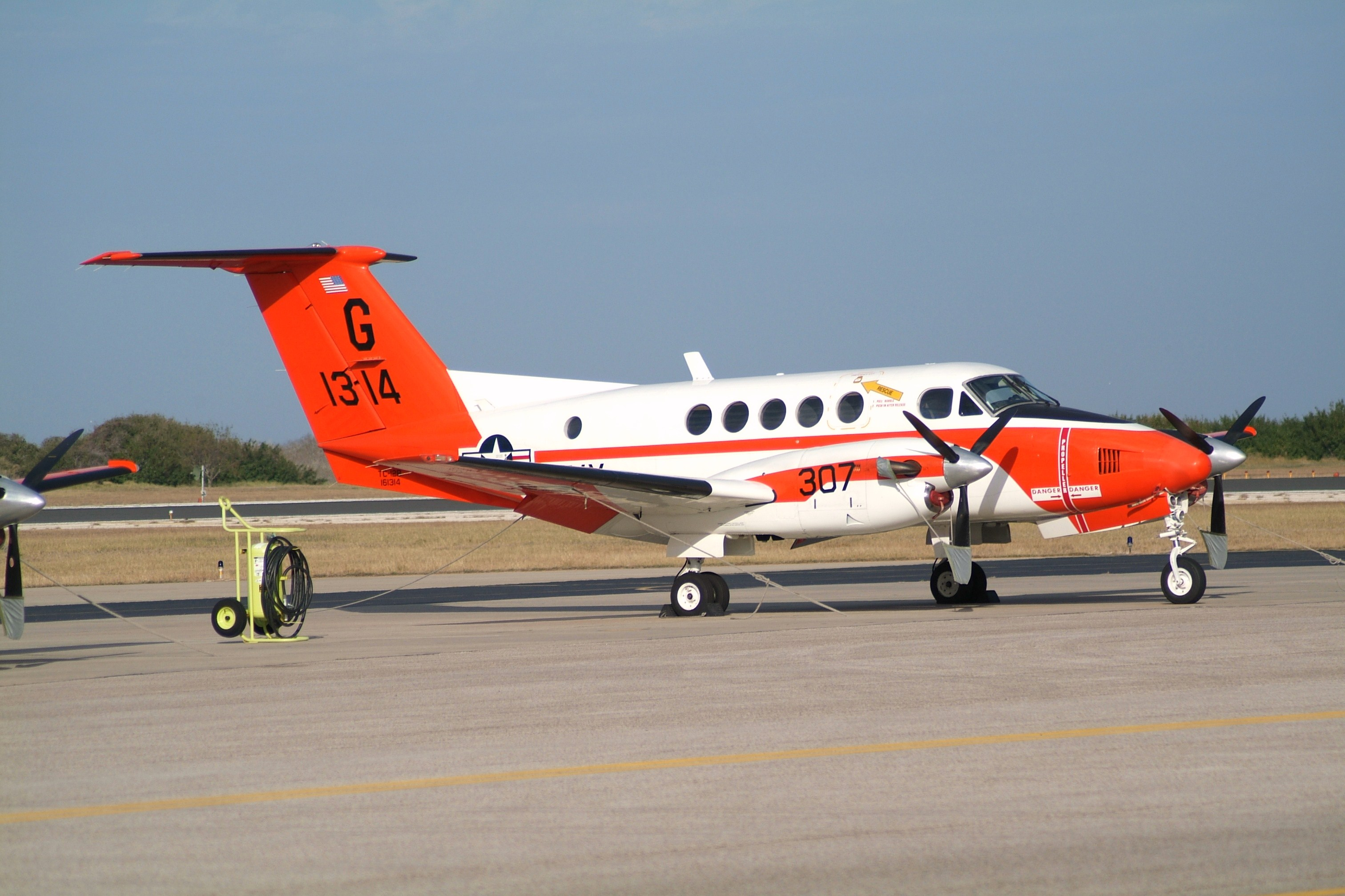 161314/G-307 TC-12B TAW-4 / VT-35 'Stingrays'